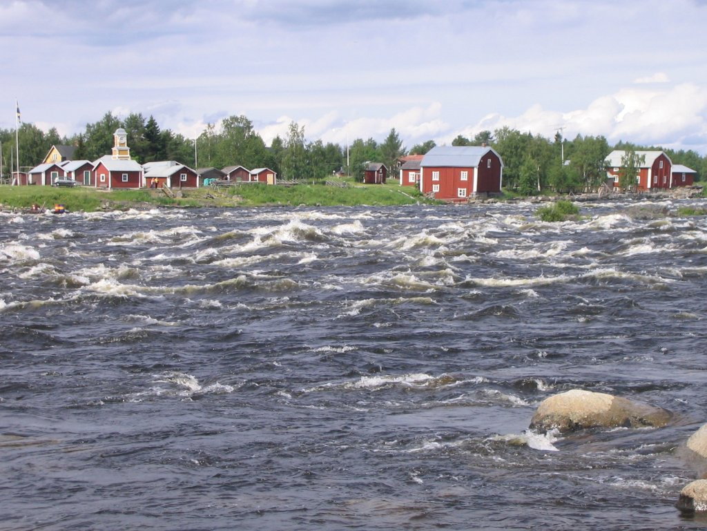 Kukkola Rapids of Torne River in Tornio, Finland. Opposite bank belongs to Sweden.